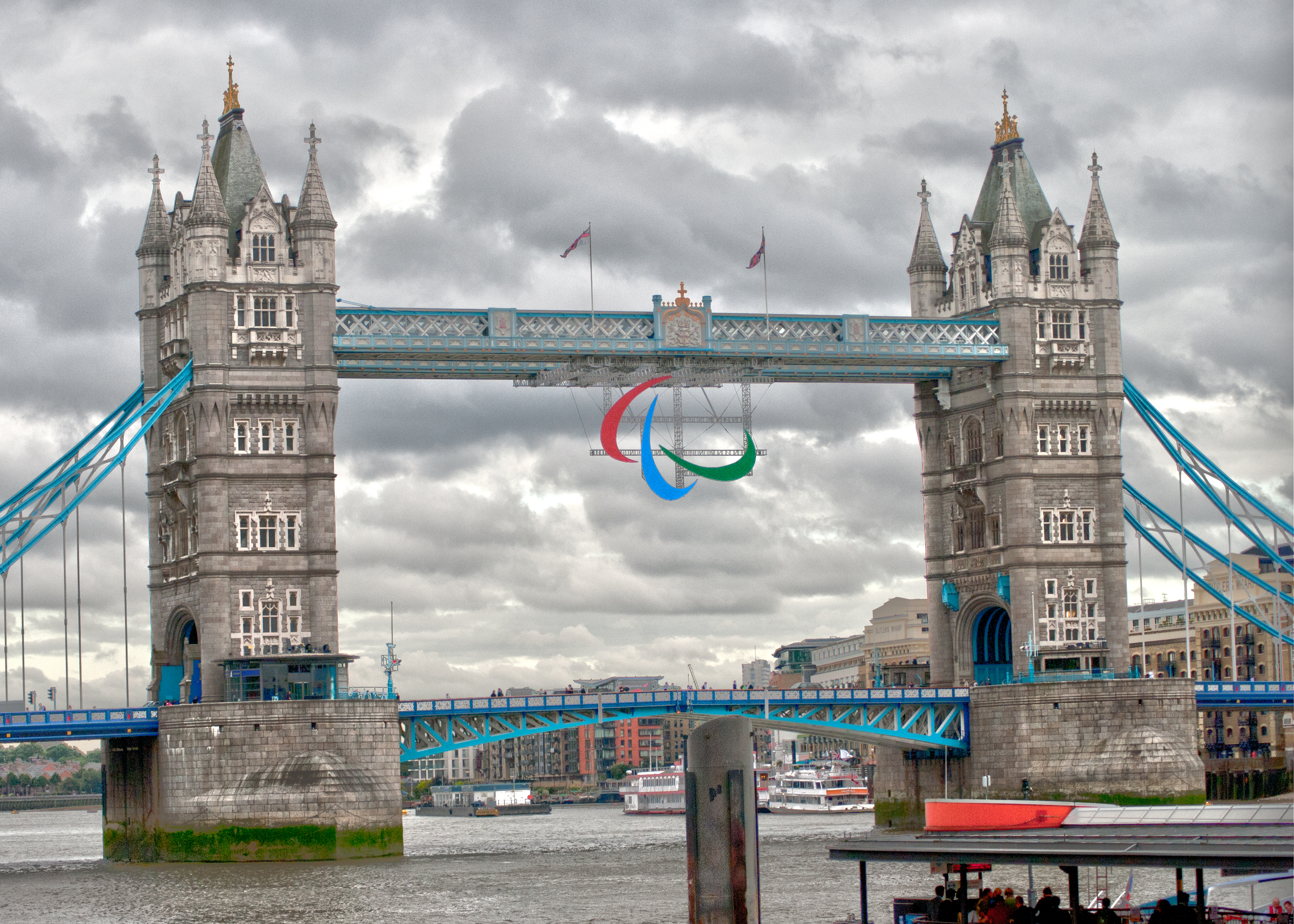 The paralympic symbol was suspended on Tower Bridge in London to signal the start of the games on 29 August.